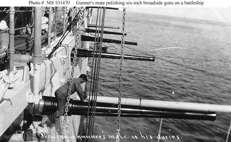 On a battleship of the Maine class (Battleship #s 10-12), circa 1907-1908, possibly during the "Great White Fleet" World Cruise. This ship may be USS Ohio (Battleship # 12), as it comes from a series of views that include several directly identified as having been taken on board her.